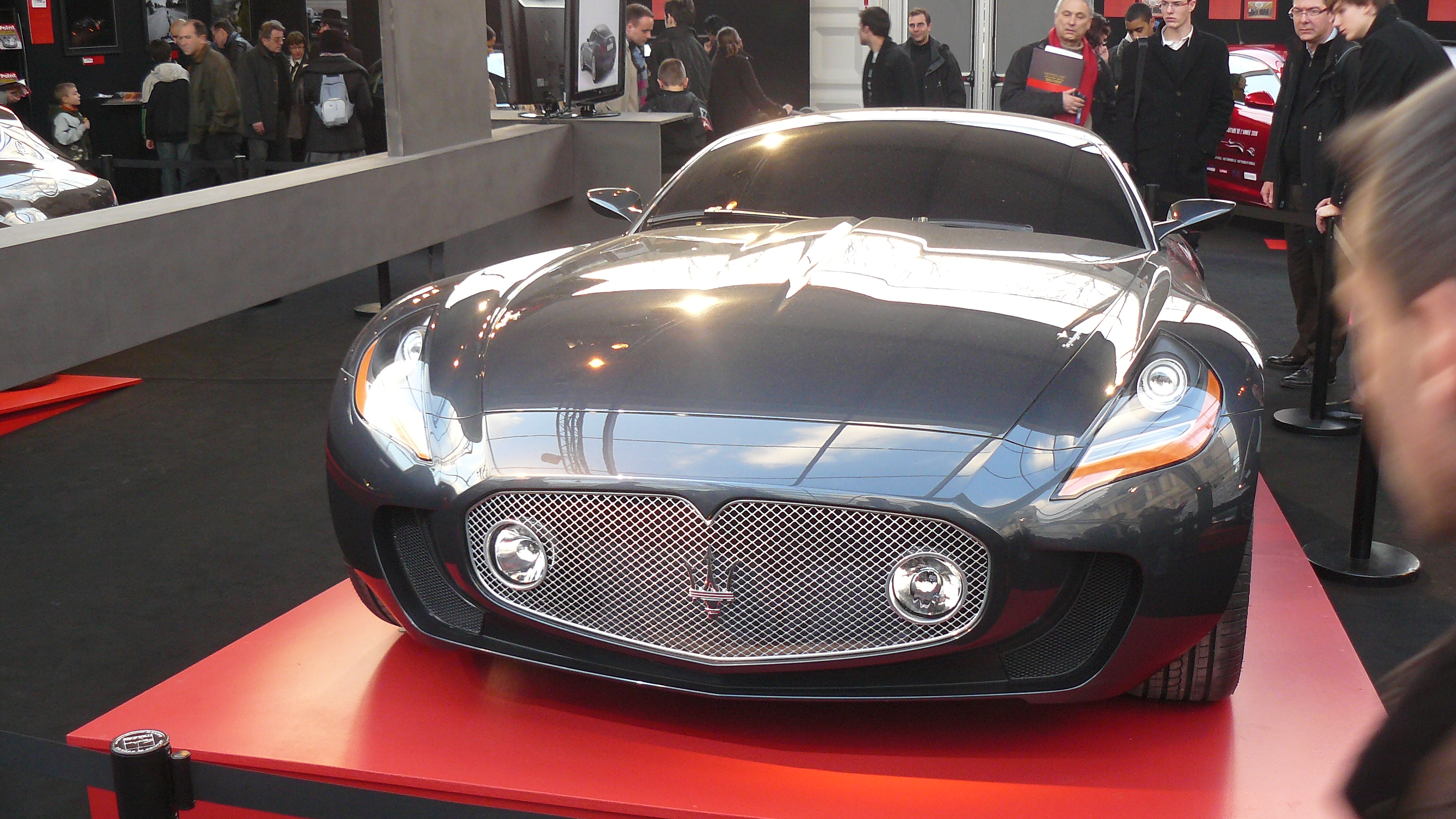 2008 Maserati A8GCS Berlinetta Touring